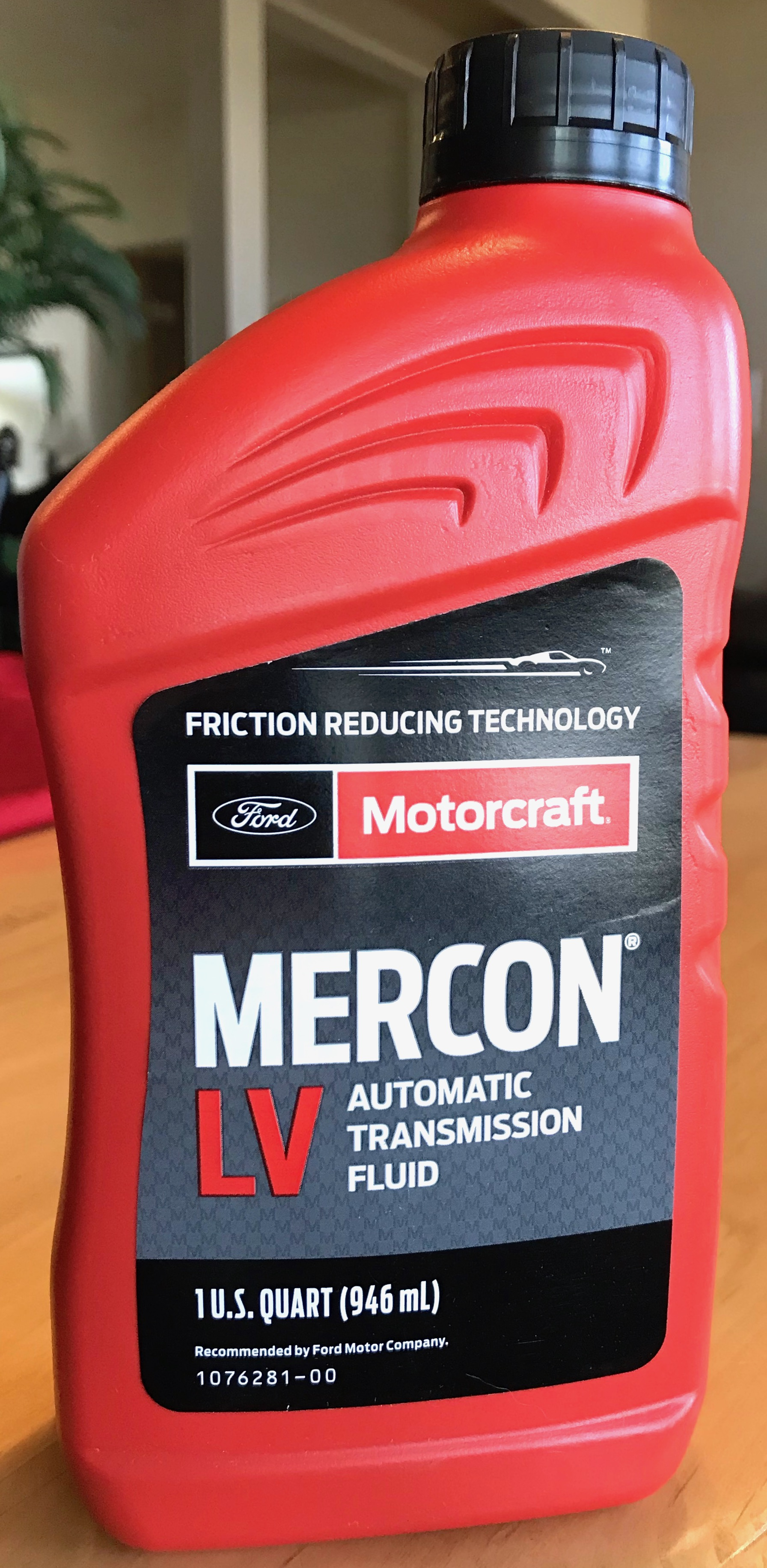 Mercon LV ATF